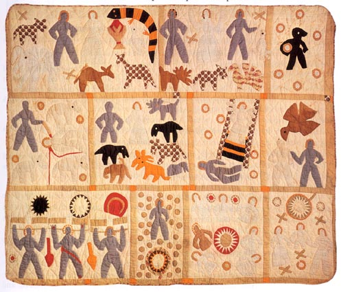 Photo of Harriet Powers' 1886 bible quilt by Rhonda Leigh Willers of the University of Wisconsin - River Falls and obtained from African-American Artists